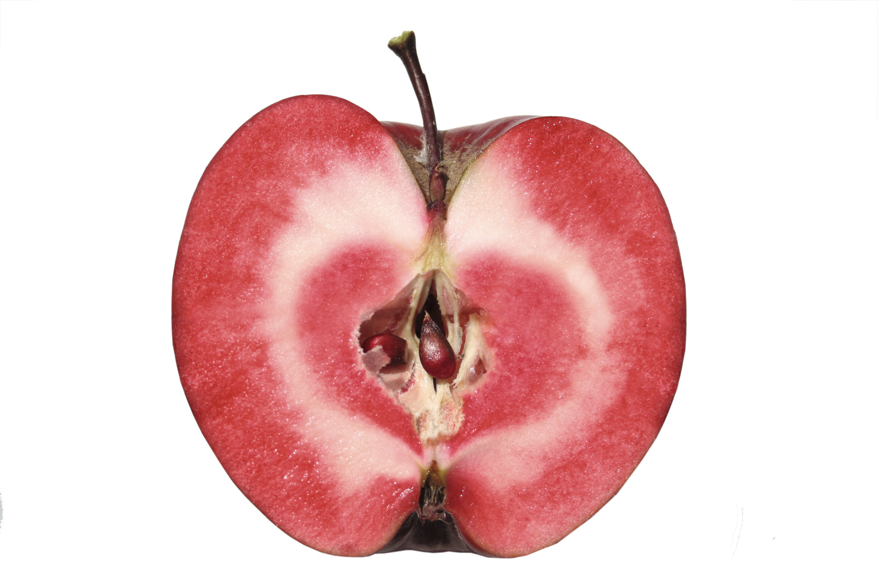 Longitudinal cut of an Redlove apple, with typical heartshaped pattern.